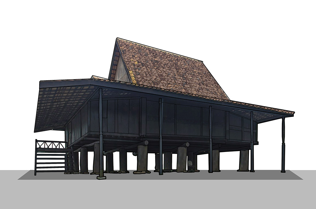 The picture of Rumah Ulu of the Ogan people of South Sumatra The picture is redrawn from a photograph taken from